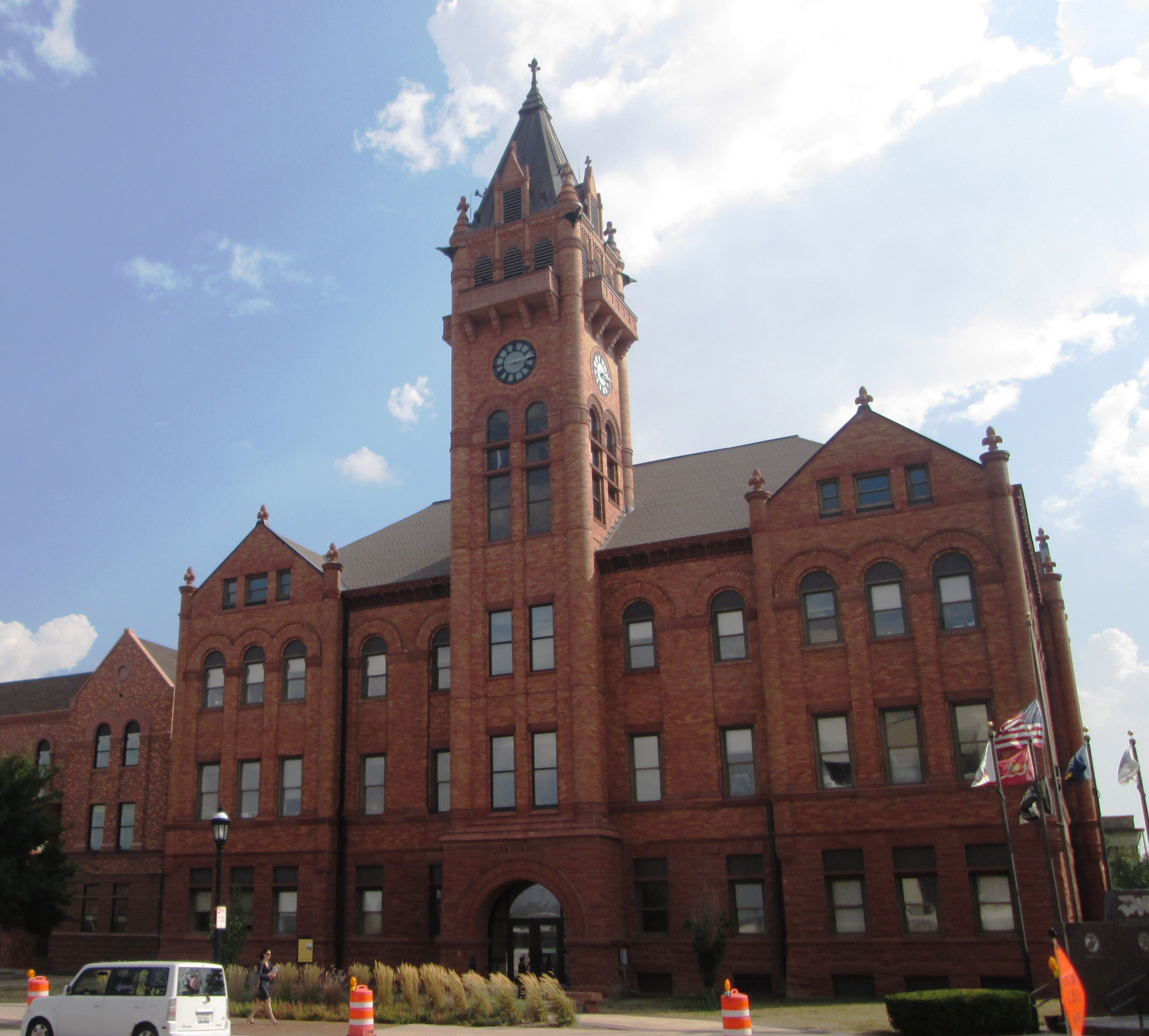 The Champaign County Courthouse, located at 101 East Main Street in Urbana, Illinois, is the fifth such building. Built in 1900 for $150,000 and designed by Joseph Royer in the Richardsonian Romanesque style, the building has a 2002 addition to the east. The tower was remodeled in 1952. (Sources: [1] and [2])